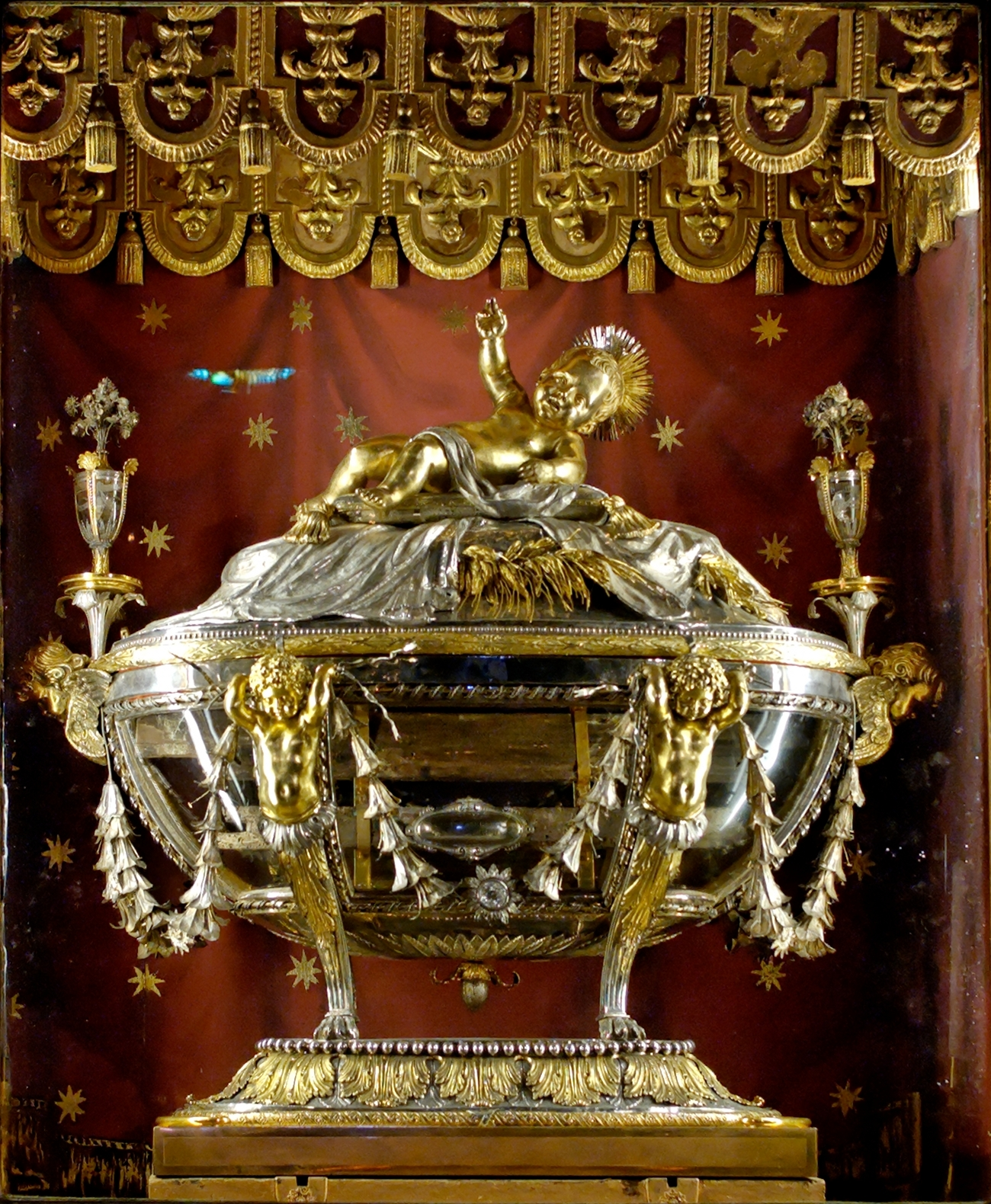 Relic of the Holy Cradle, confession of the Basilica di Santa Maria Maggiore.